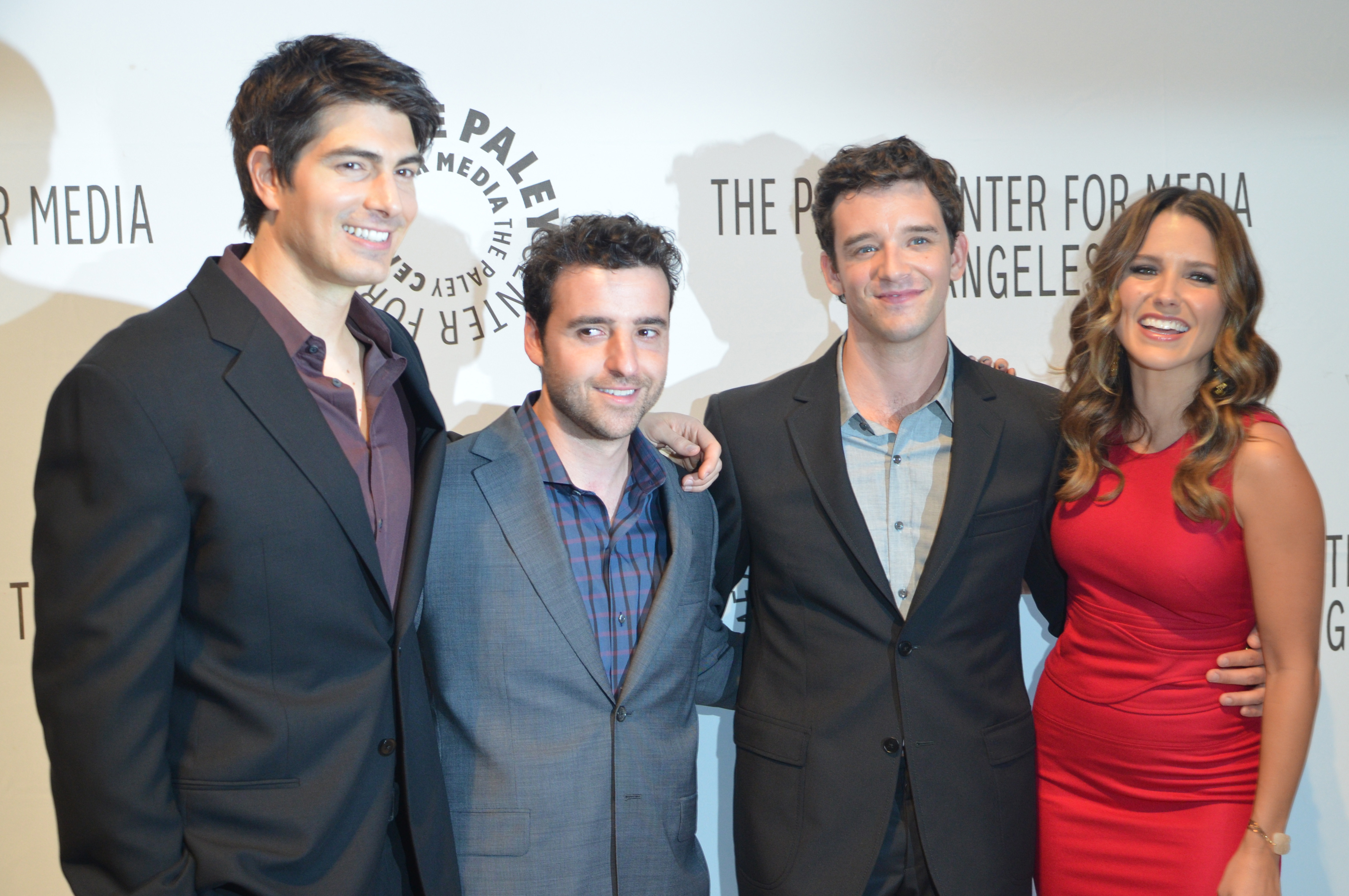 Brandon Routh & David Krumholtz & Michael Urie & Sophia Bush at the 2012 PaleyFest: Fall TV CBS Preview Party.